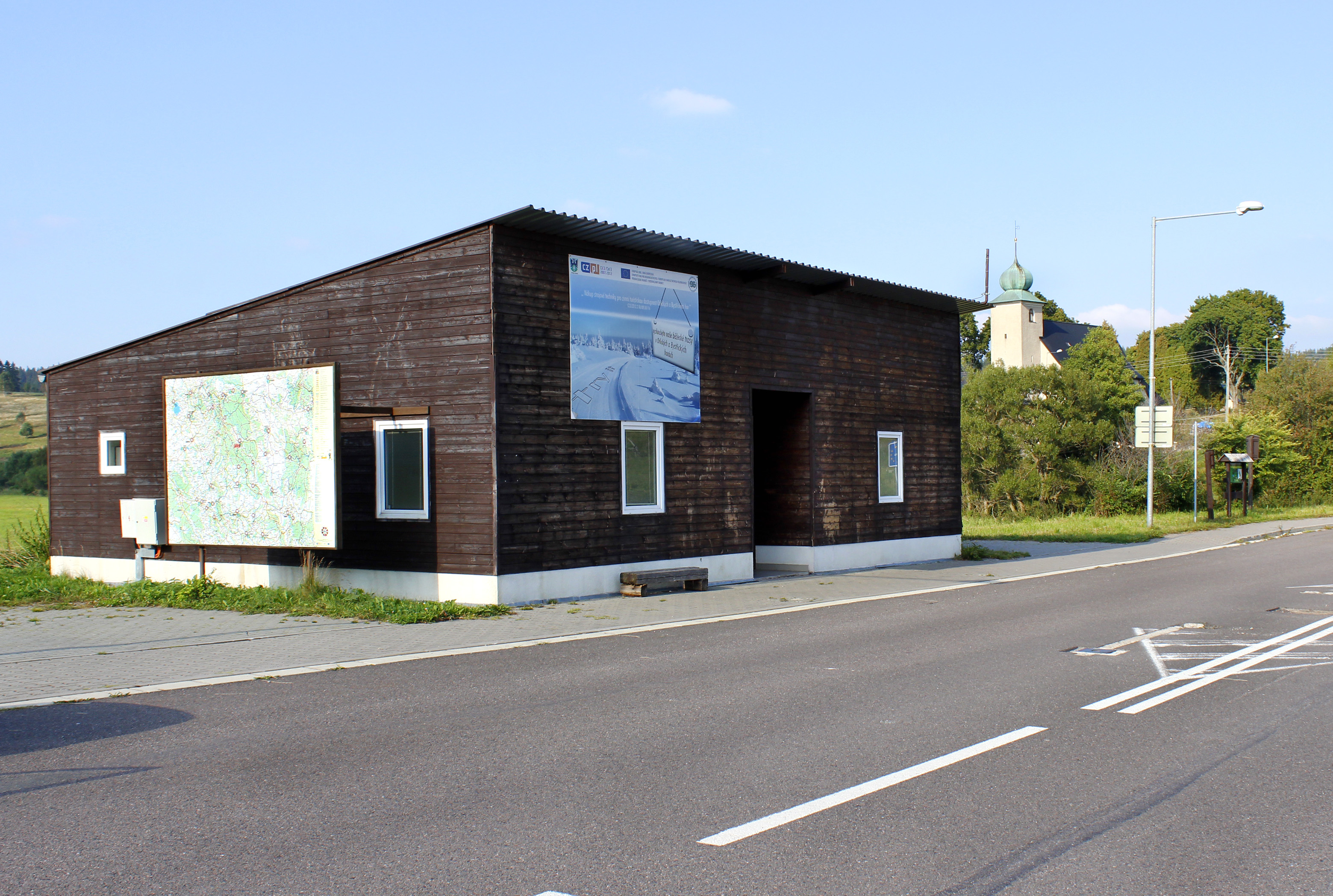 Former custom-house between the Czech Republic and Poland in Orlické Záhoří